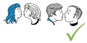 "Same-sex partnerships are allowed in Switzerland." Image from a flyer documenting social norms in Switzerland, published by the government of the canton of Lucerne, Switzerland, for issue to refugees.